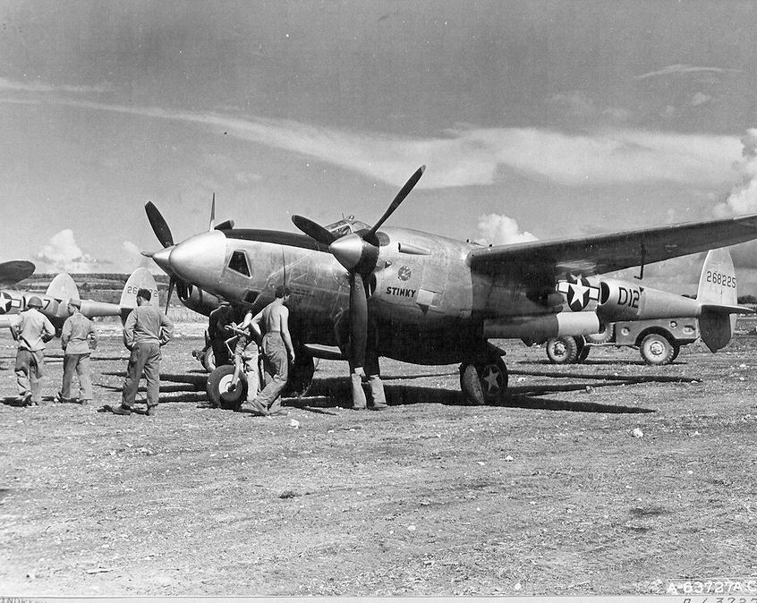 F-5B-1-LO Lightning "Stinky", s/n 42-68225 28th Photo Recon Squadron. Photo taken at: East Field, Saipan, Mariana Islands, July 1944